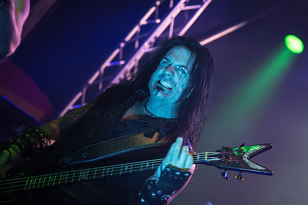 Dave Vincent of Morbid Angel, picture taken in Geiselwind